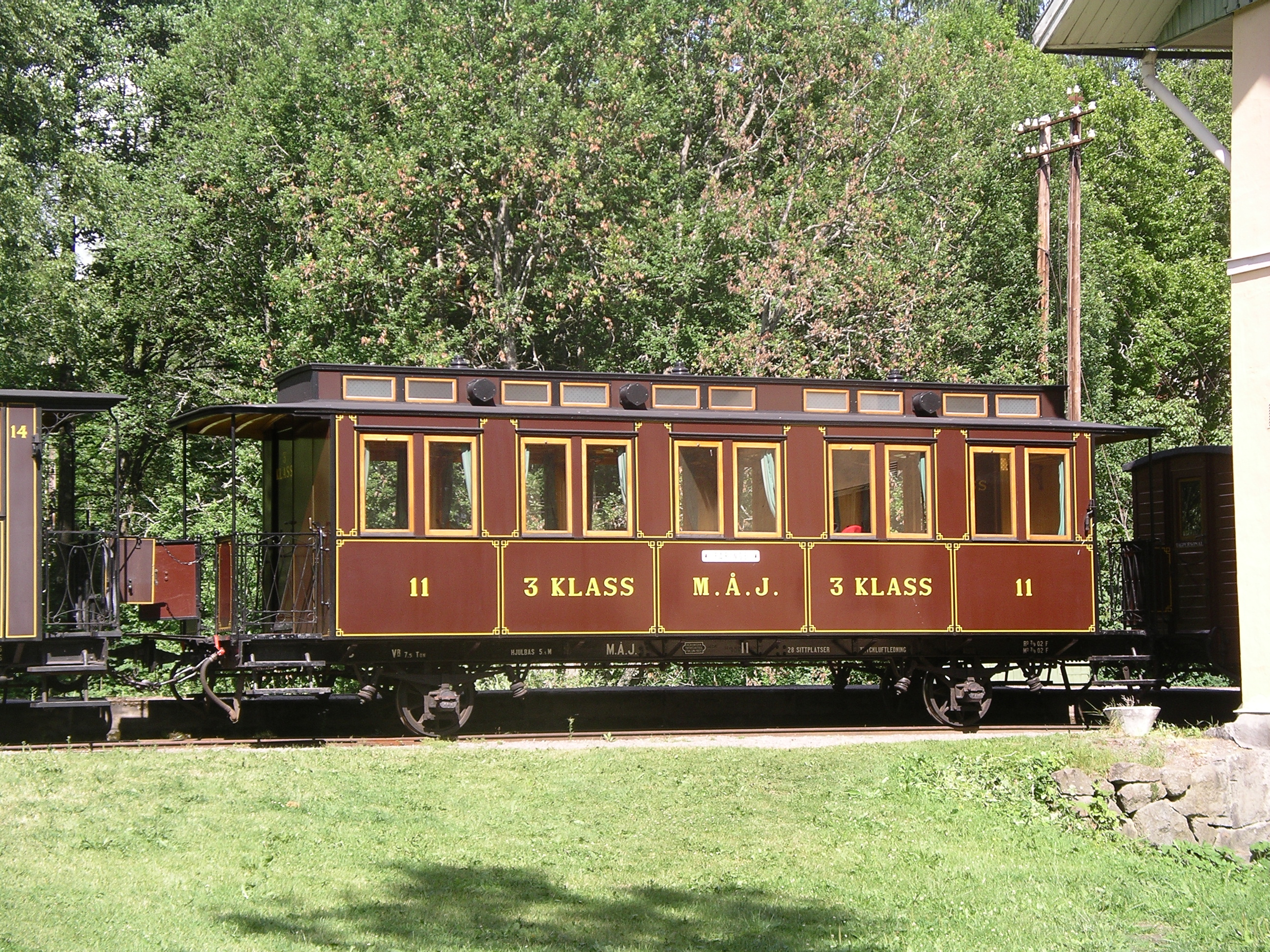 Passenger coach MÅJ C11 at Upsala-Lenna Railway in Sweden